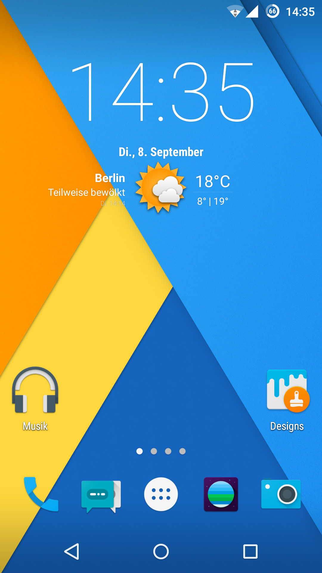 Screenshot of CyanogenMod 12.1 homescreen; build cm-12.1-YOG4P from 15th August 2015